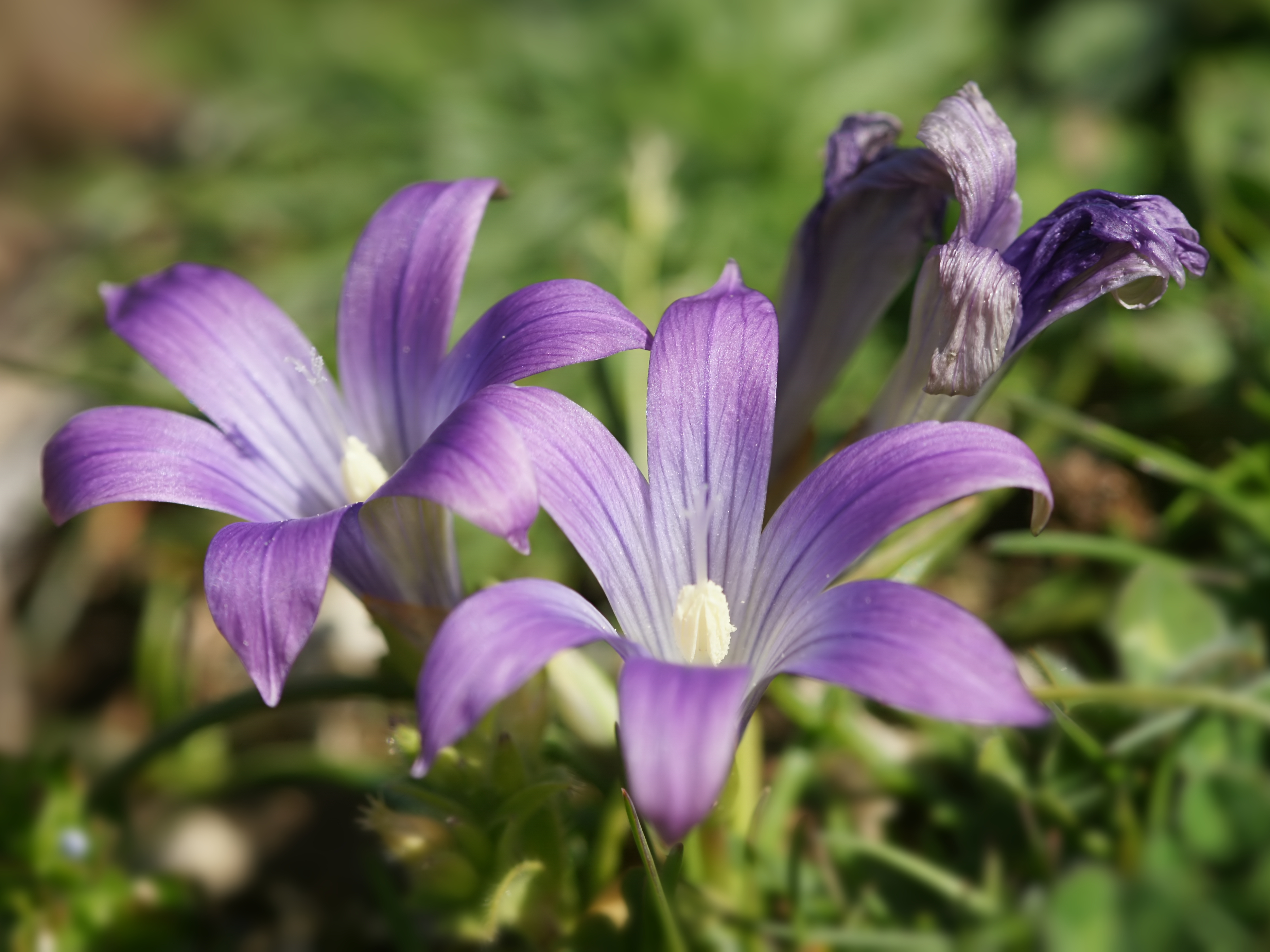 Ligurian Sand Crocus, Sardinia, Italy.